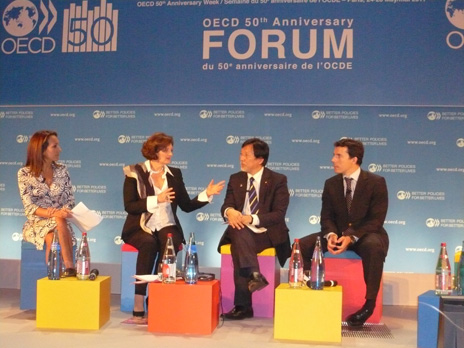 Stéphanie Antoine, anchor of France 24, Cherie Blair, Founder of Cherie Blair Foundation for Women, Carlos Mulas Granados, Executive Director of the IDEAS Foundation, and Yoshinori Suematsu, Senior Vice-Minister of Cabinet Office, attended the OECD 50th Anniversary Forum at the Château de la Muette in Paris Commune, Paris Department, Île-de-France Region on May 24, 2011.